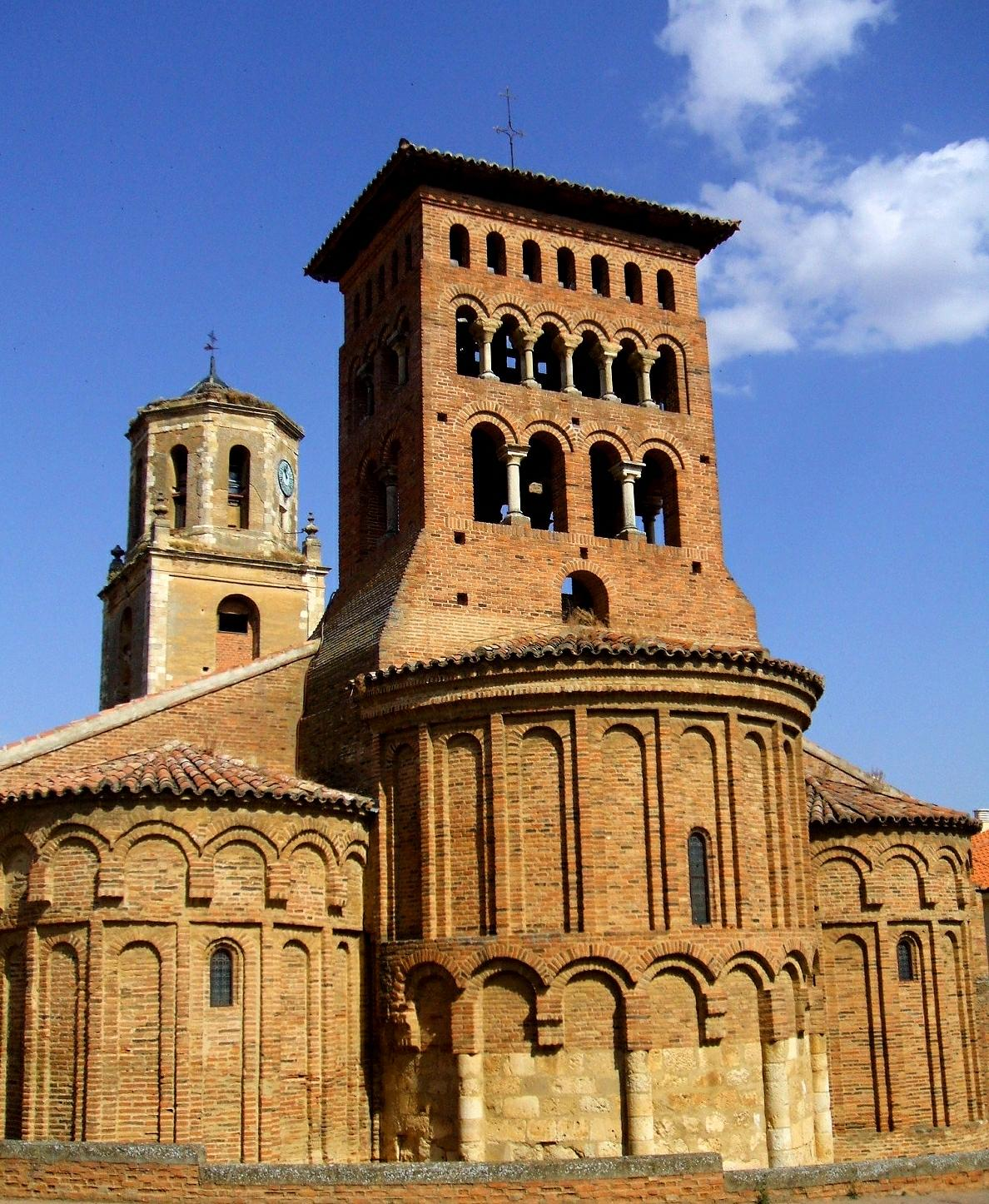 Church of San Tirso (Saint Thyrsus) in Sahagún, León, Spain